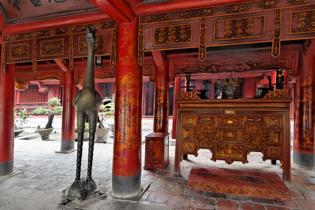 Văn Miếu (Temple of literature), Hanoi, Vietnam Main hall.